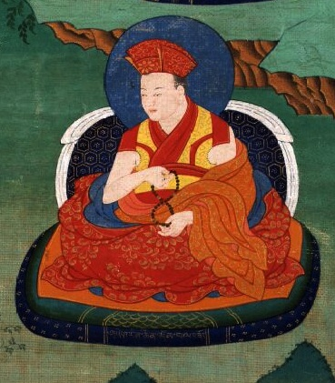 Jamyang Yeshe Rinchen b.1364 - d.1413- 10th Abbot of Ralung Monastery, Tibet